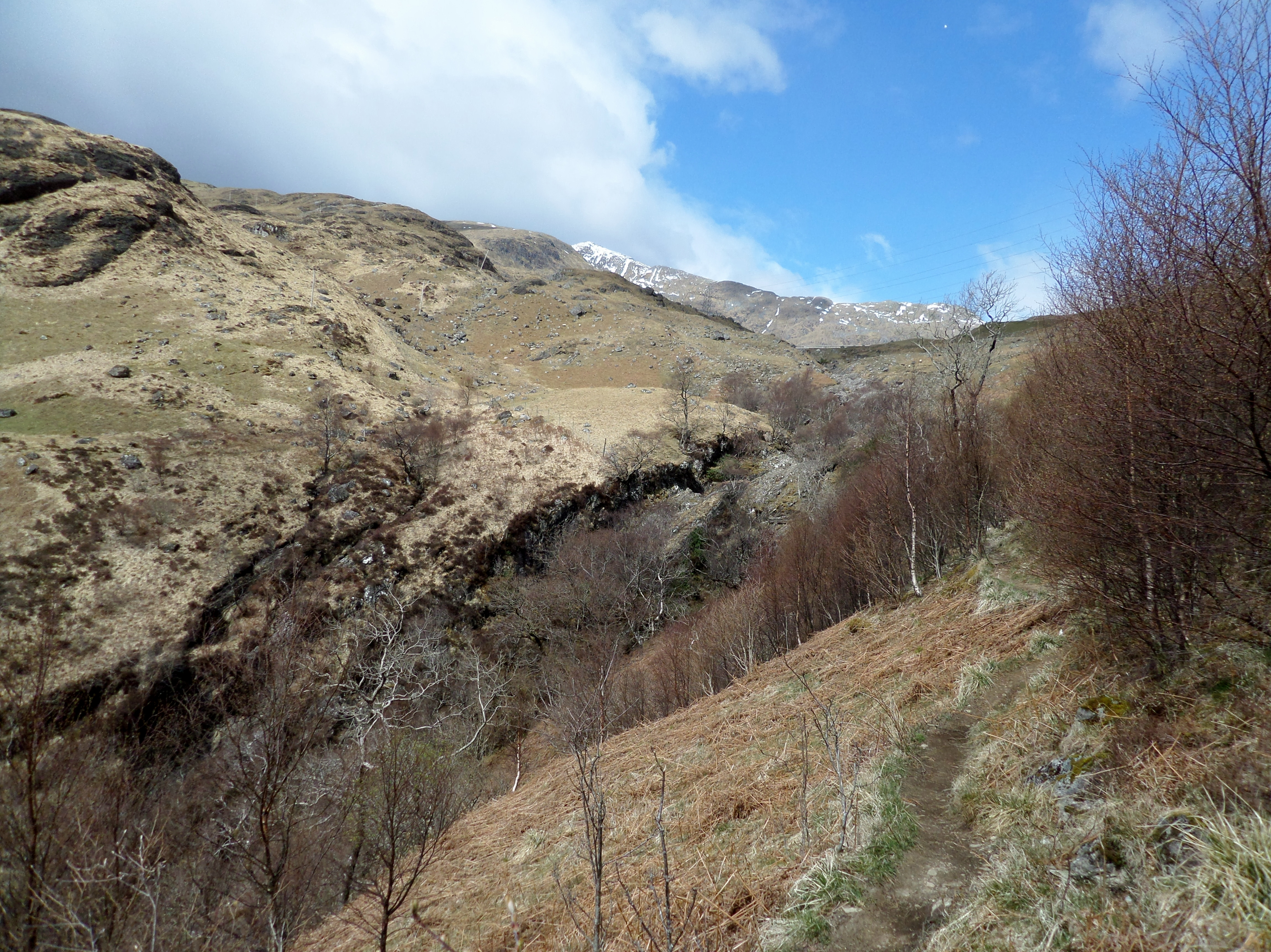 The Falls of Cruachan and dam, Ben Cruachan, Argyll and Bute, Scotland.